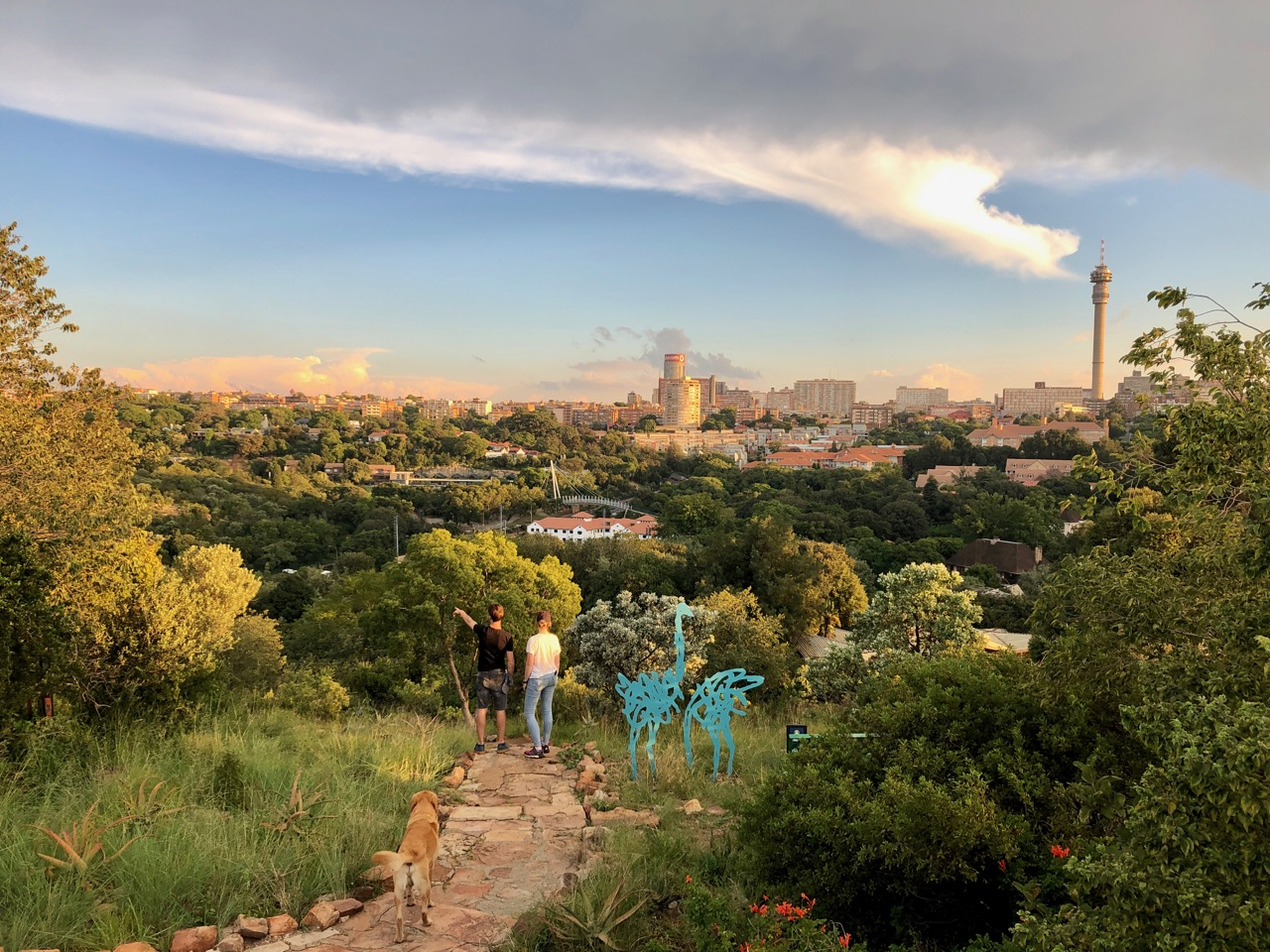 The Wilds Nature Reserve, Johannesburg with sculptures by James Delaney